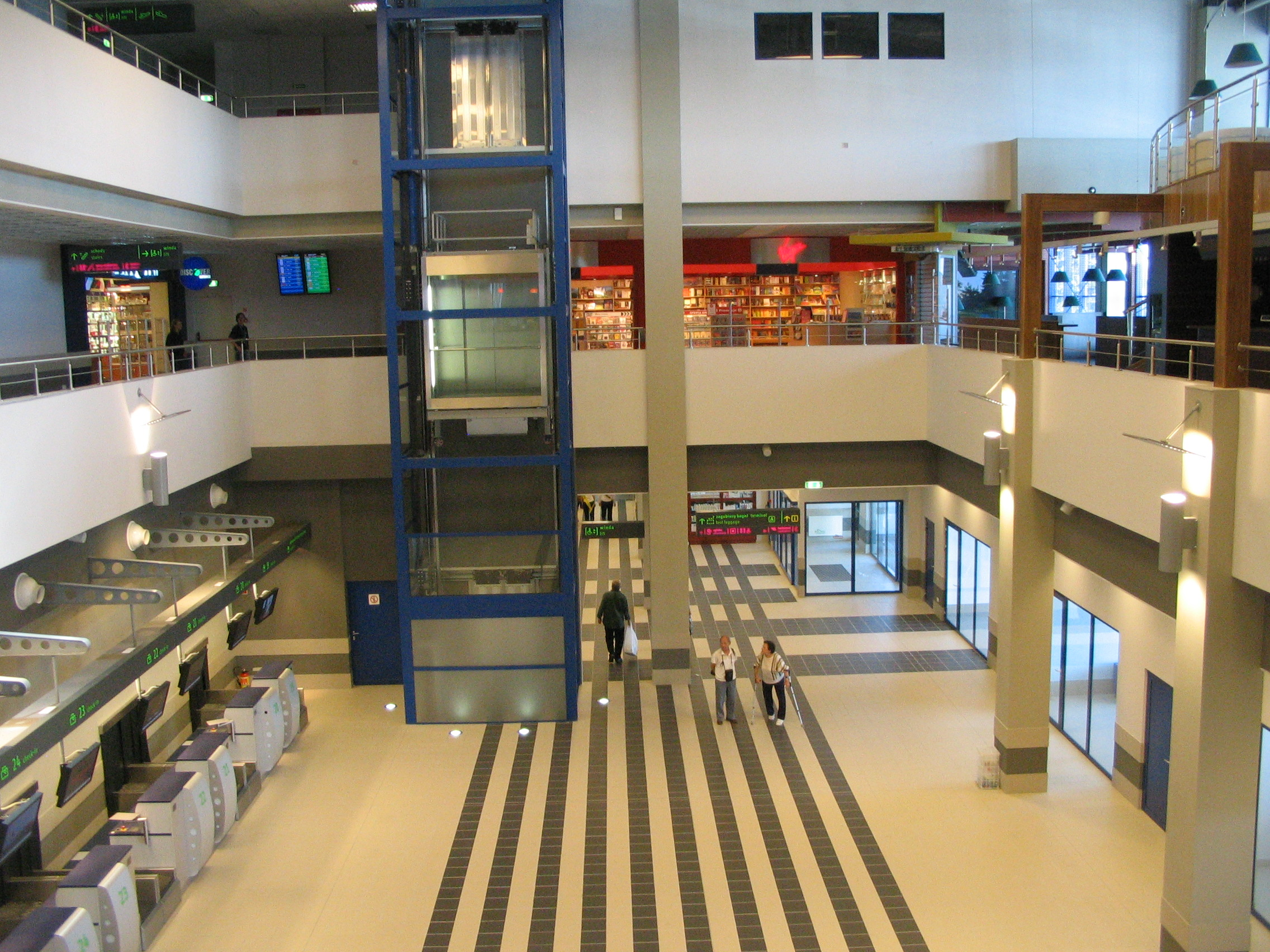 Katowice International Airport in Pyrzowice - terminal B - lobby viewed from above